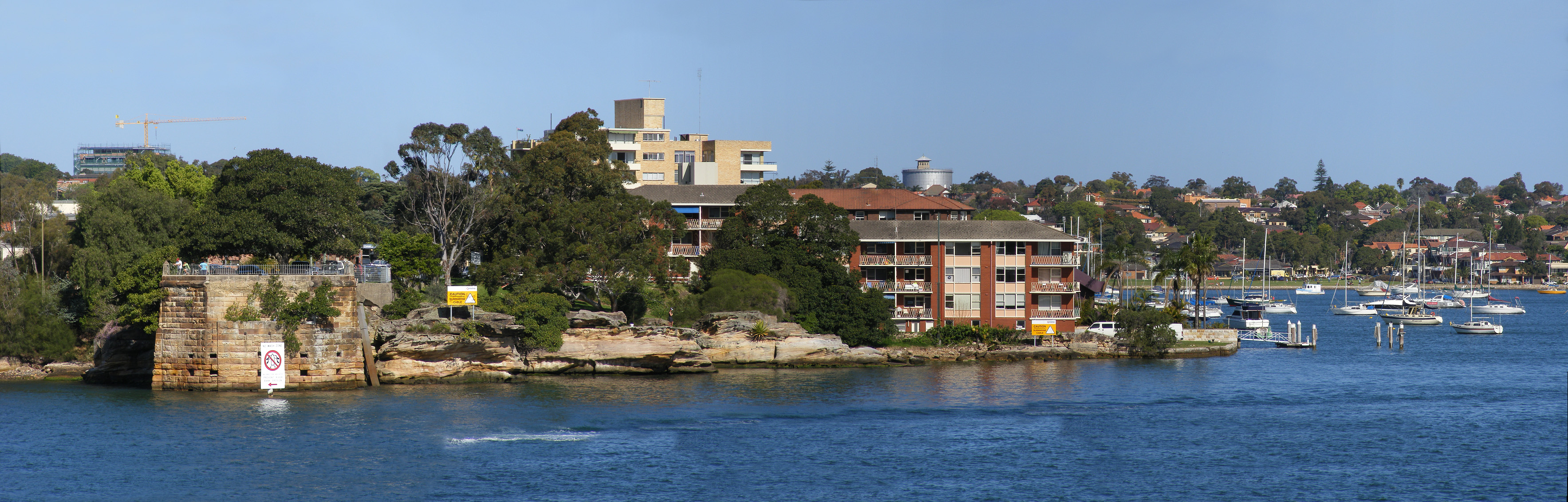 Five Dock New South Wales